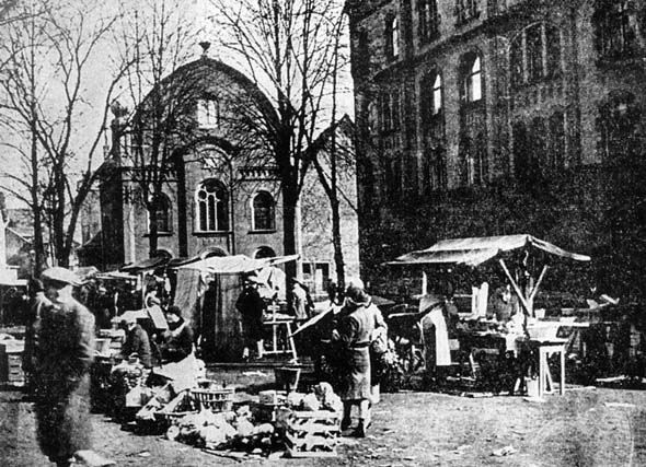 The synagogue of Höchst (Hessen) and the market place